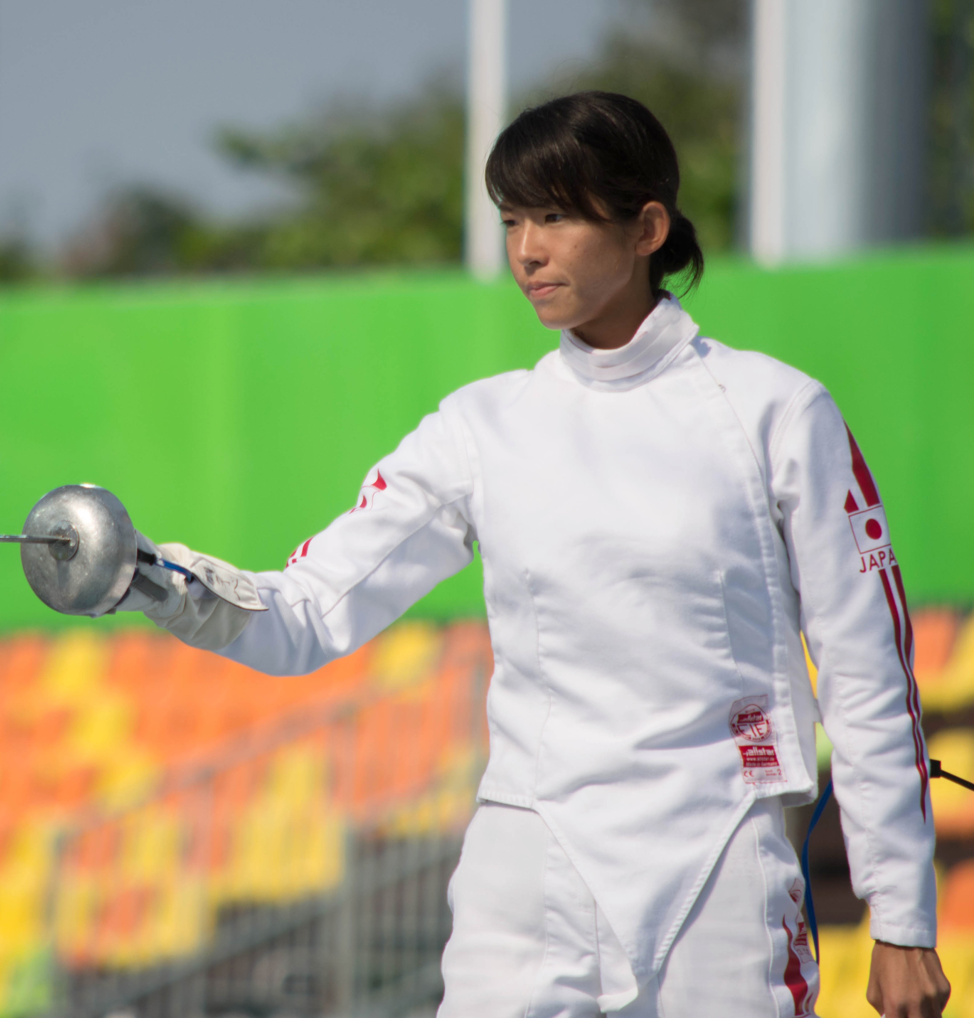 Extra fencing competition at the Modern Pentathlon